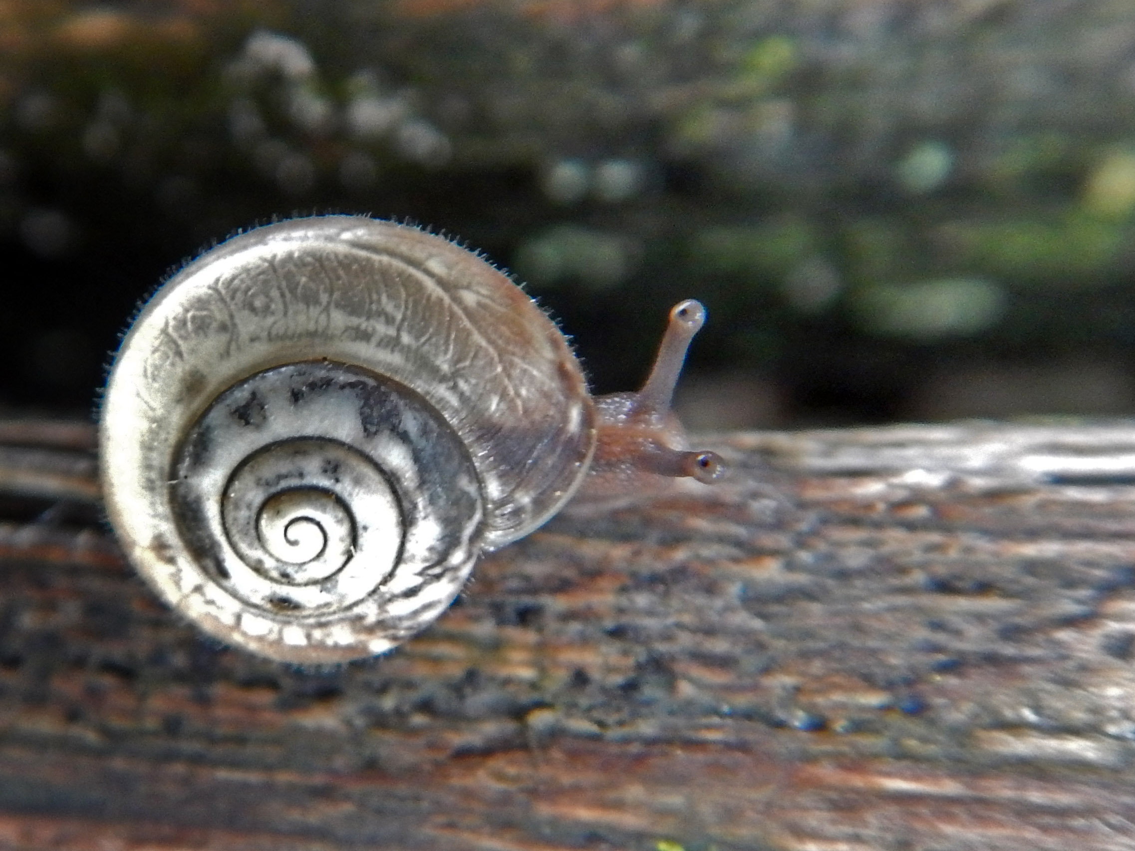 Silky Snail ;Ashfordia granulata (Alder, 1830), (Mollusca, Gastropoda Stylommatophora), here in Cap-Gris-Nez (North of France near the sea)